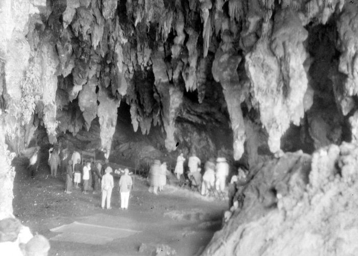 Europeans in a stalactitic cave at Punung